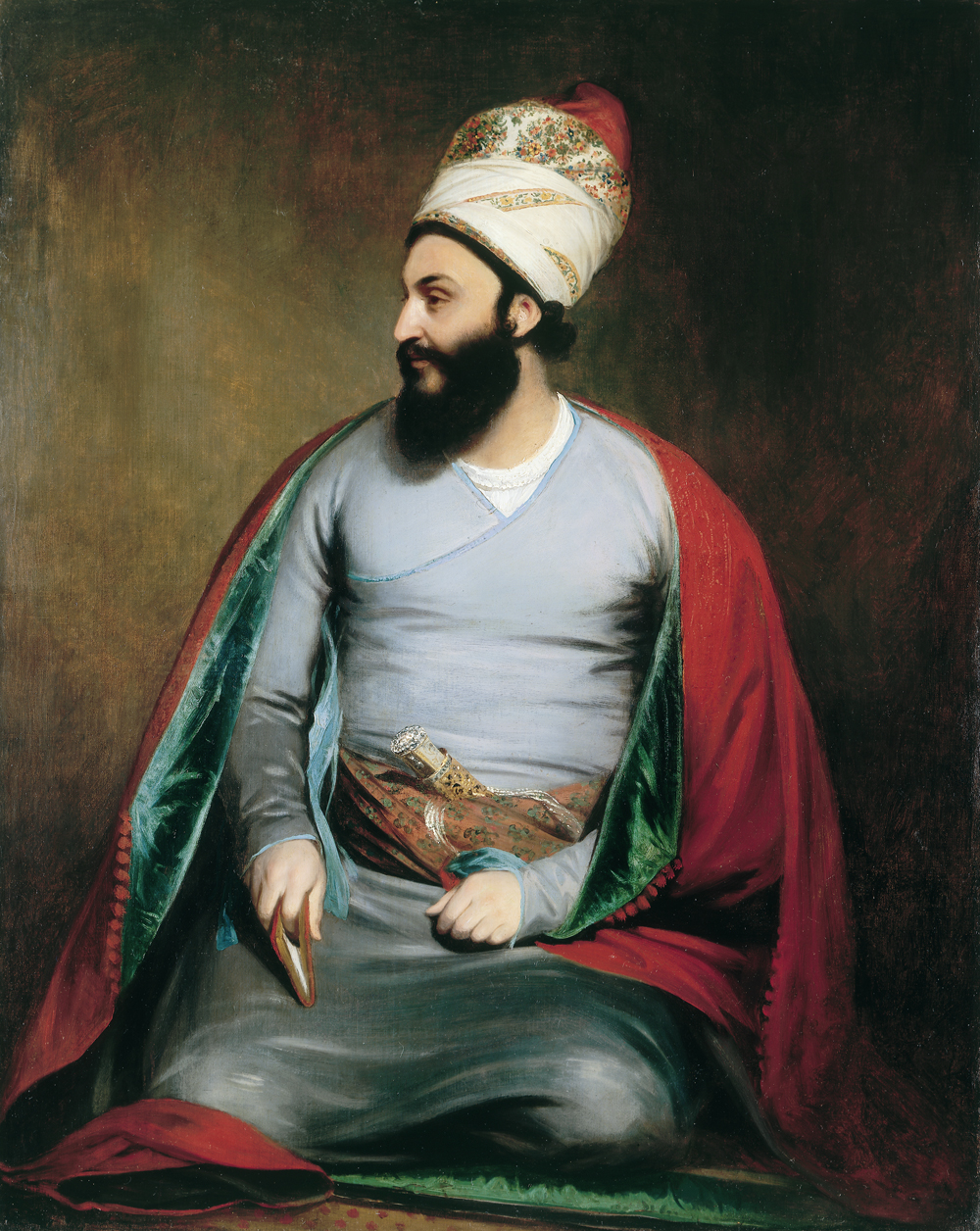 Mirza Abu'l Hassan Khan portrait by William Beechey: Mirza Abu’l Hassan Khan was sent to the court of King George III in 1809 by the Shah of Persia, to help negotiate a treaty of alliance between Great Britain and Persia (now Iran). He became a figure of fascination, and many parties were held in his honour.